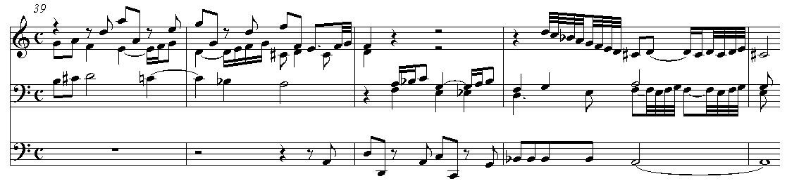 Musical quotation from Prelude in D minor, BuxWV 140, by Dieterich Buxtehude (c1637–1707). Made using Sibelius 4 by Jashiin. The music quoted is in the public domain, and the image is hereby released into the public domain by Jashiin.